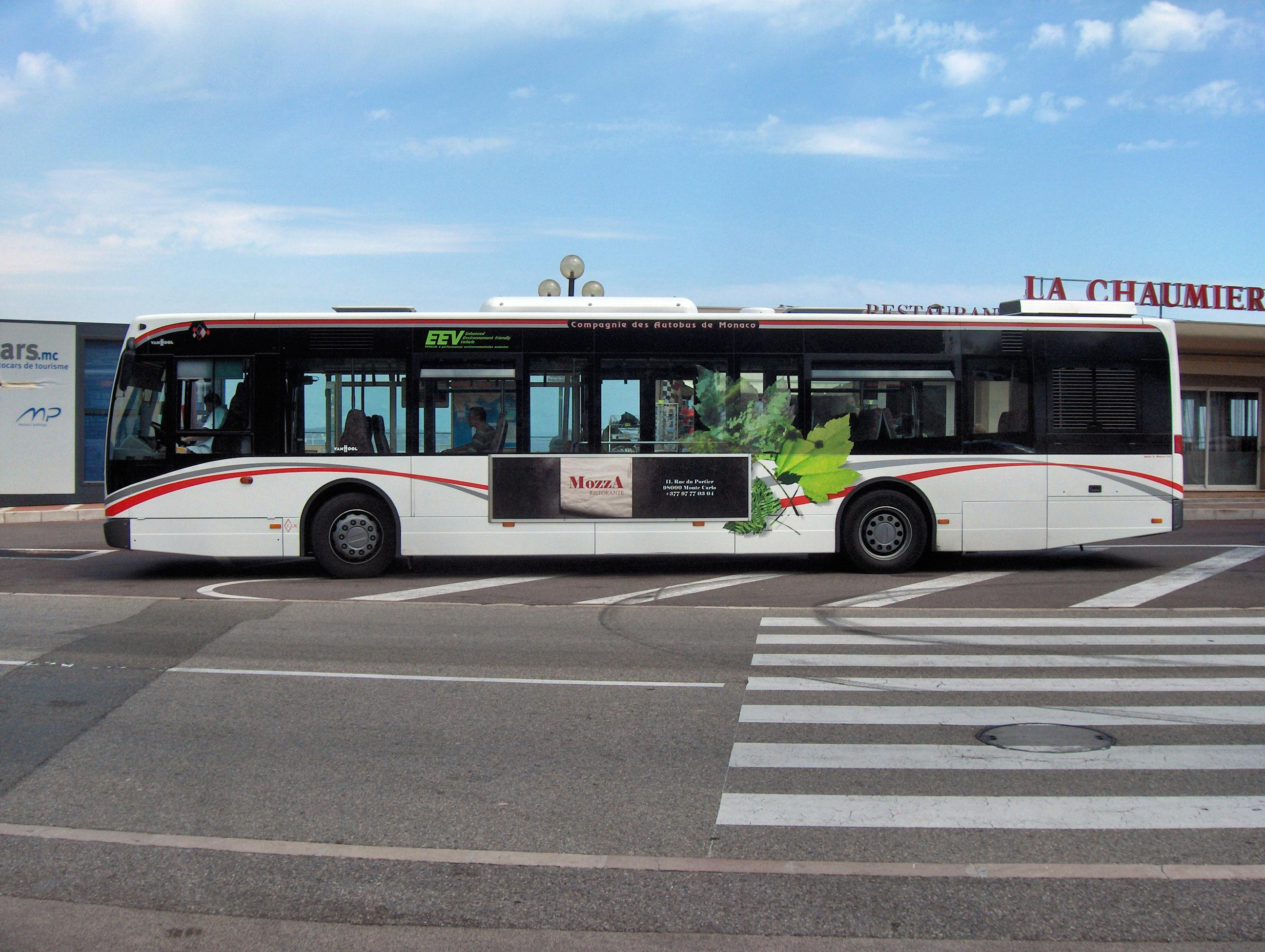 Compagnie des Autobus de Monaco; Monaco